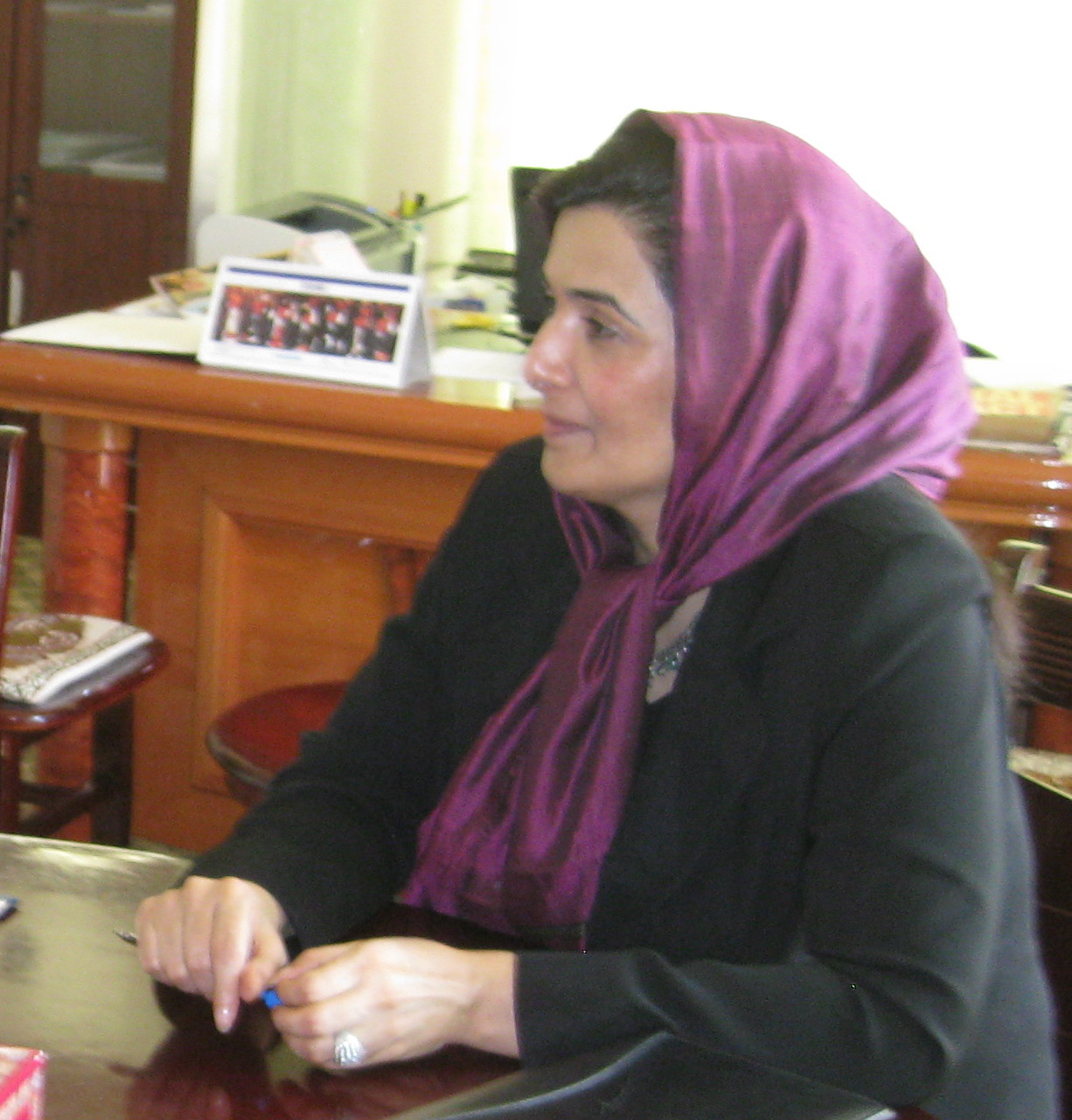 Dr. Marie Ricciardone (wife of then U.S. Ambassador to the Arab Republic of Egypt Francis J. Ricciardone, Jr) met with Suraya Pakzad, one of Time’s 100 Most Influential and the 2007 recipient of the Secretary’s International Women of Courage Award.